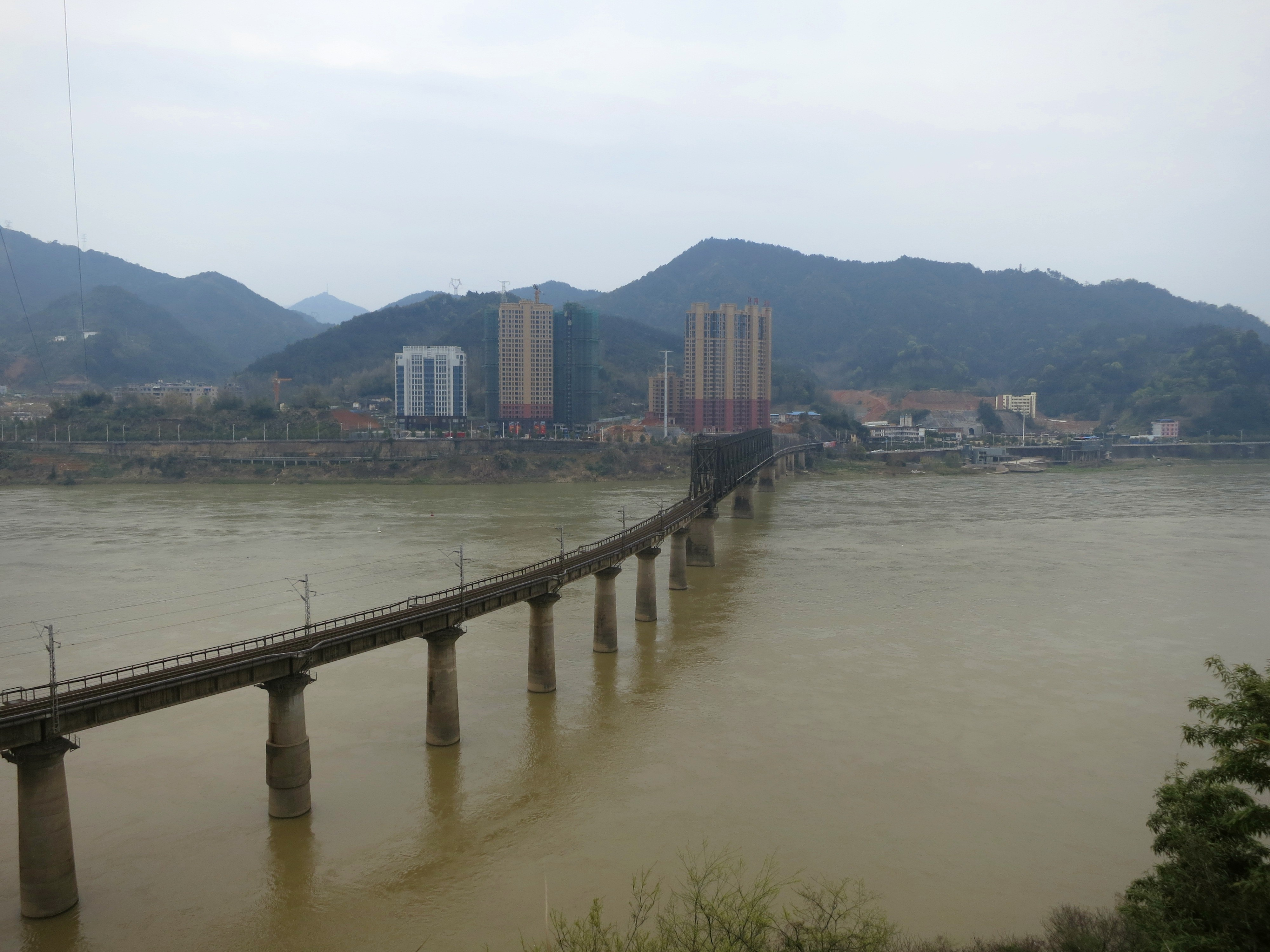 铁路桥 - Railway Bridge - 2016.03